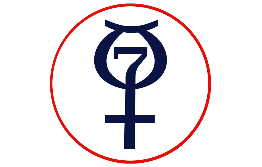 File:Mercury-patch-g.png with expanded margins. That image was based off of patch found here